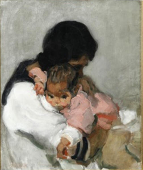 Painting of a Puerto Rican Mother and Child by Alice Schille. The published reprint was captioned "Porto Rican Mother and Child".